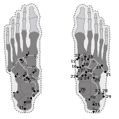 Location of the accessory ossicles of the tarsus. On the left, the plantar aspect of the right foot, on the right the dorsal aspect of the right foot. The more dorsally situated ossicles are shown in closed circles on the right and open circles on the left. The ossicles lying closer to the plantar surface of the foot (the sole) are shown in closed circles on the left and open circles on the right. The half-open circles are situated even more dorsally then the others, being situated just below the medial and lateral malleolus. 1=Os cuneometatarsale I plantare, 2=os uncinatum, 3=os sesamoideum tibialis posterior, 4=os sesamoideum peroneum, 5=os cuboideum secundarium, 6=os trochleare calcanei, 7=os in sinus tarsi, 8=os sustentaculum tali, 9=os talocalcaneale posterius, 10=os aponeurosis plantaris, 11=os subcalcaneum, 12=os sesamoideum tibialis anterior, 13=os cuneometatarsale I tibiale, 14=os intermetatarsale I, 15=os cuneometatarsale II dorsale, 16=os paracuneiforme, 17=os cuneonaviculare, 18=os intercuneiforme, 19=os intermetatarsale IV, 20=/os talonaviculare, 21=os vesalianum pedis, 22=os tibiale externum, 23=os talotibiale dorsale, 24=os supratalare, 25=os calcaneus secundarius, 26=os subtibiale, 27=os subfibulare, 28=os retinaculi, 29=os calcaneus accessorius, 30=os trigonum, 31=os supracalcaneum, 32=os tendinis calcanei